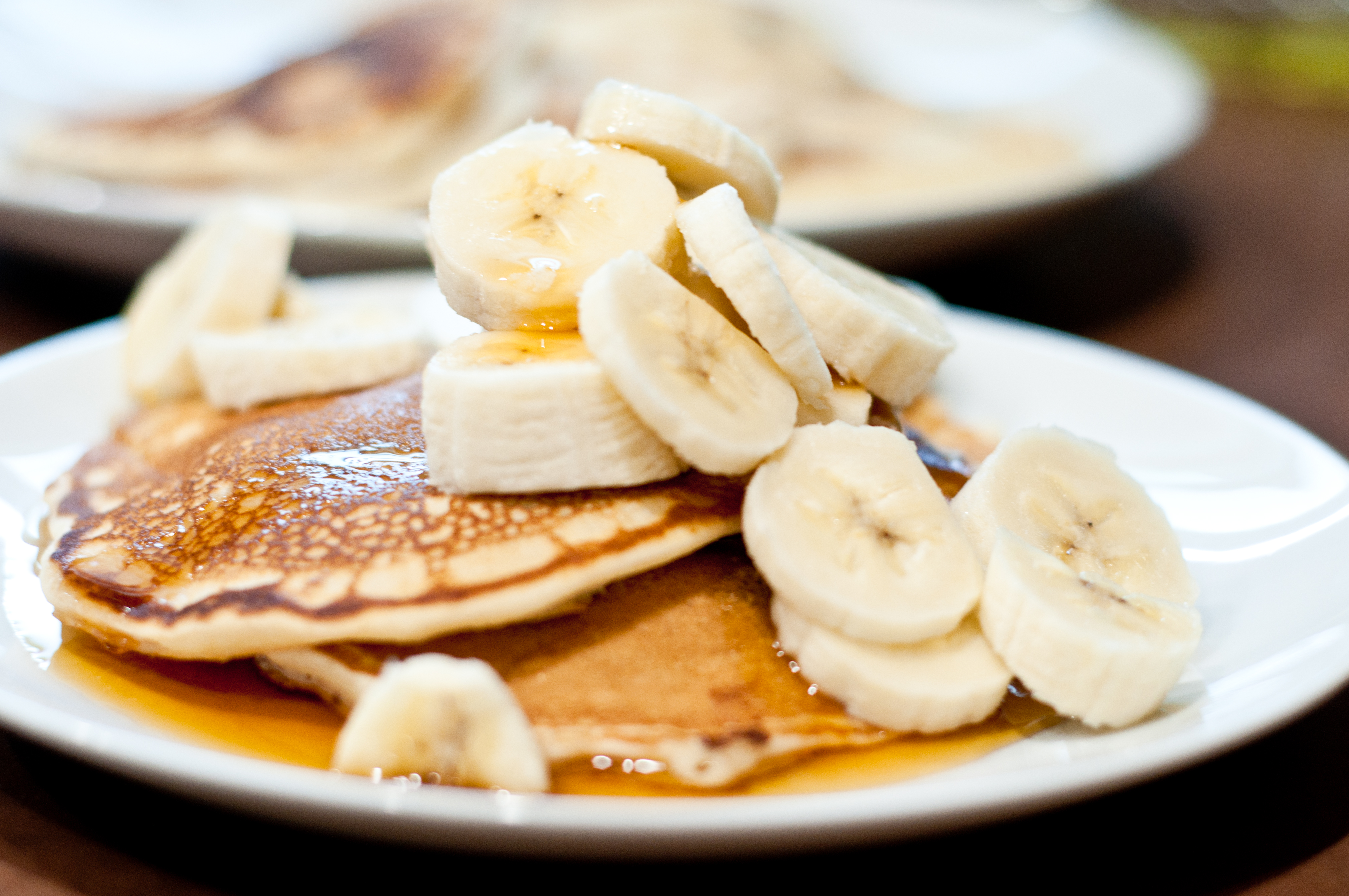 chocolate chip pancakes with vanilla agave syrup and sliced bananas - post-paleo for sure!